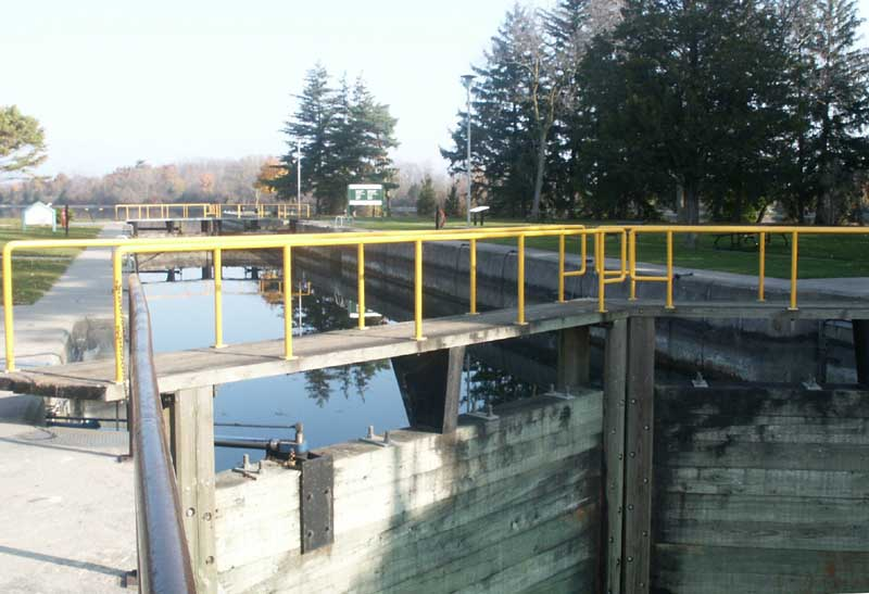 Lock 1 "Trenton" on the Trent–Severn Waterway at the community of Trenton, Ontario